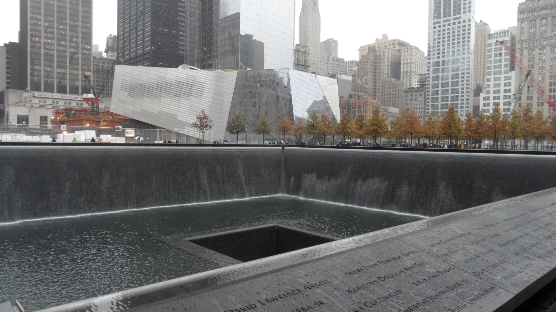 This is a view of one of the fountains located within the site of the World Trade Center, which was destroyed on September 11, 2001. The two fountains, one for each fallen tower, are titled "Reflecting Absence" and were designed by architect Michael Arad and landscape architect Peter Walker